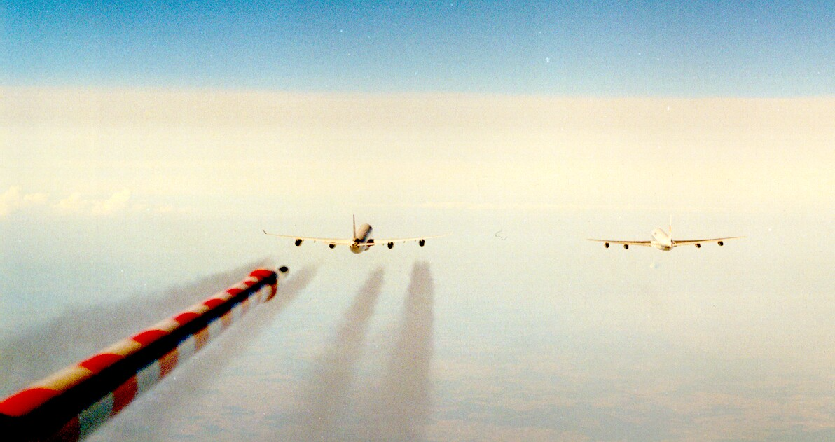 Shown below is a photo taken from the research aircraft Falcon of the German Aerospace Center (Deutsches Zentrum für Luft- und Raumfahrt(DLR) at about flight level 33,300 feet of an Airbus A340 with contrails (left) and a Boeing 707 without contrails (right).